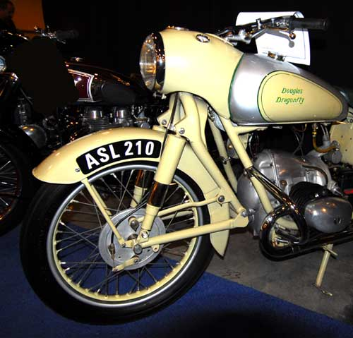 Photo © by Jeff Dean